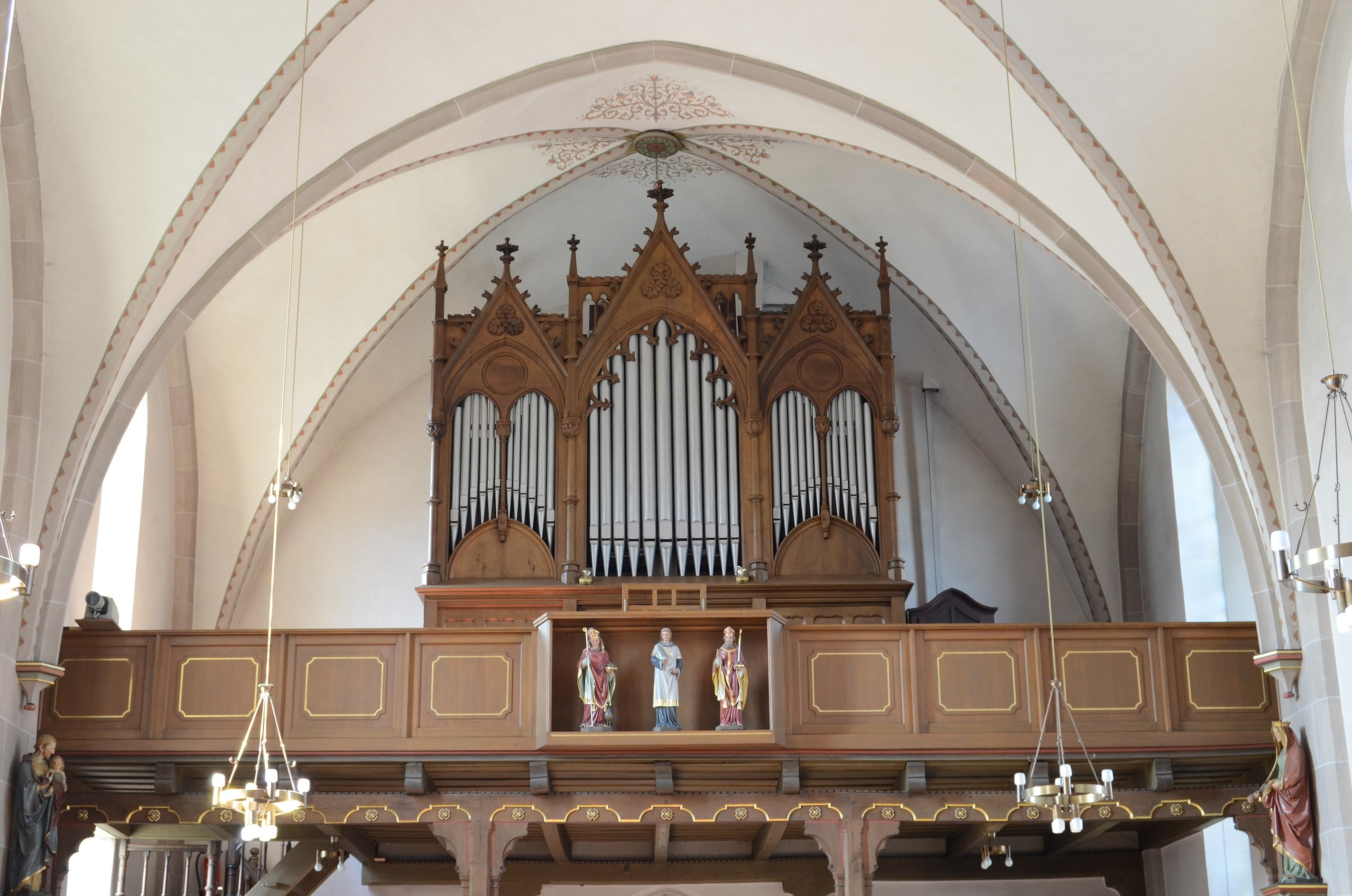 Olsberg (North Rhine-Westphalia, Germany) – district Assinghausen – Catholic Saint Catherine Church – pipe organ with its gallery This image shows a heritage building in Germany, located in the North Rhine-Westphalian city Olsberg (no. 34). This photograph was taken with a Nikon D7000